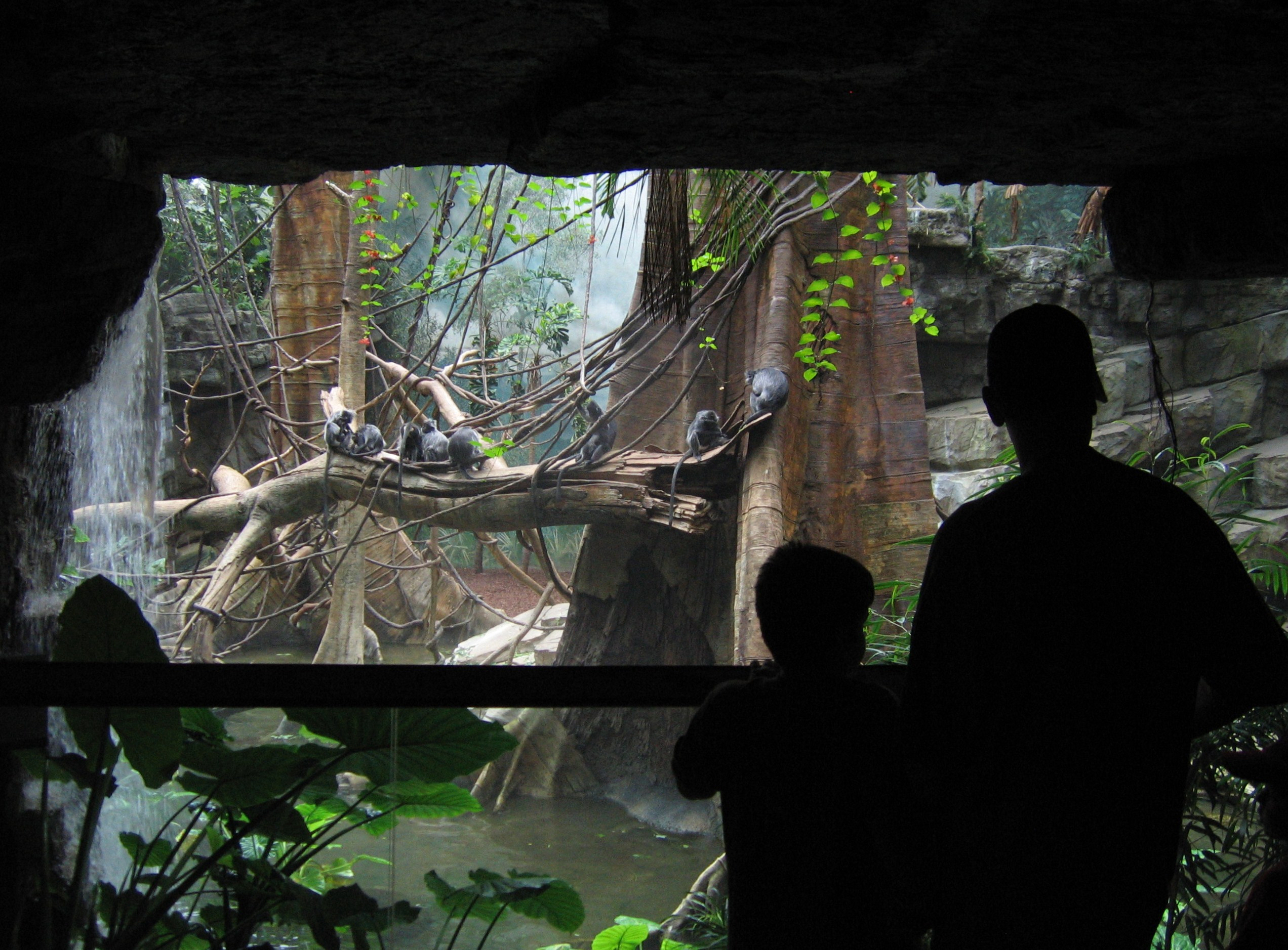 Silvered Leaf Monkeys (Trachypithecus cristatus). Bronx Zoo, New York City.